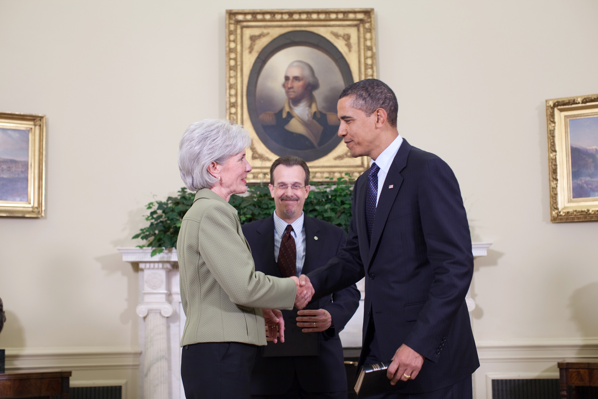 Kathleen Sebelius is sworn in as Secretary of Health and Human Services by President Barack Obama in the Oval Office.